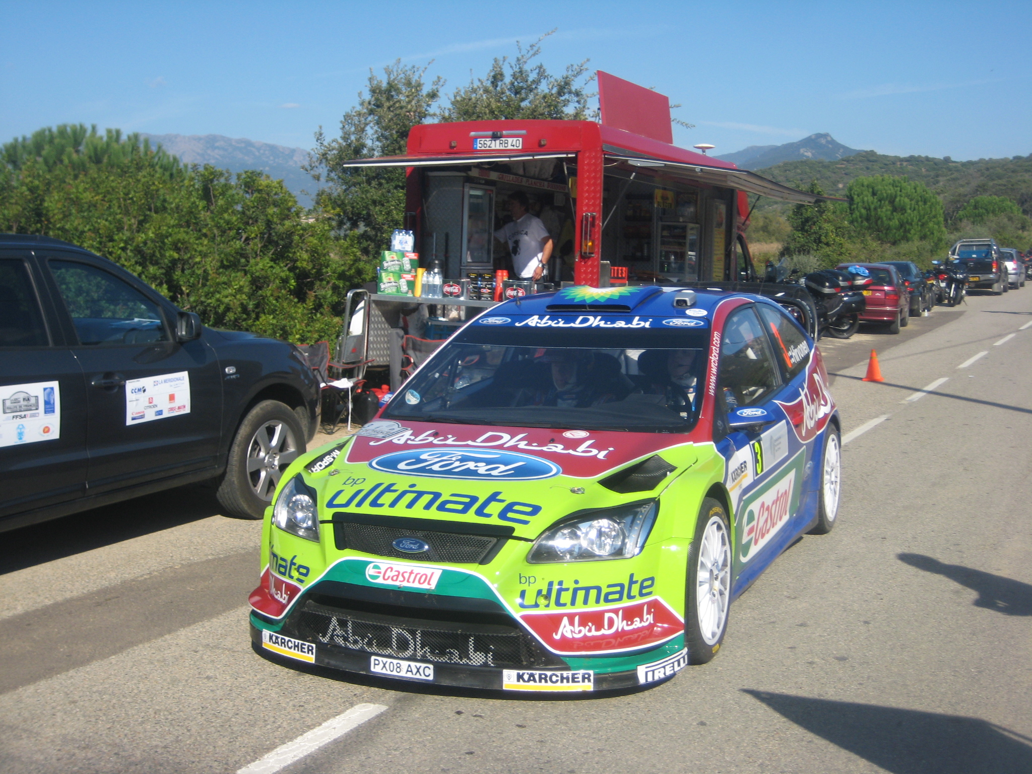 2008 Rallye de France, Day 1-SS5, Mikko Hirvonen - Ford Focus WRC